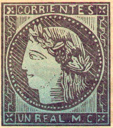 Poor forgery of the First issue of CORRIENTES, printed black on blue paper in 1856